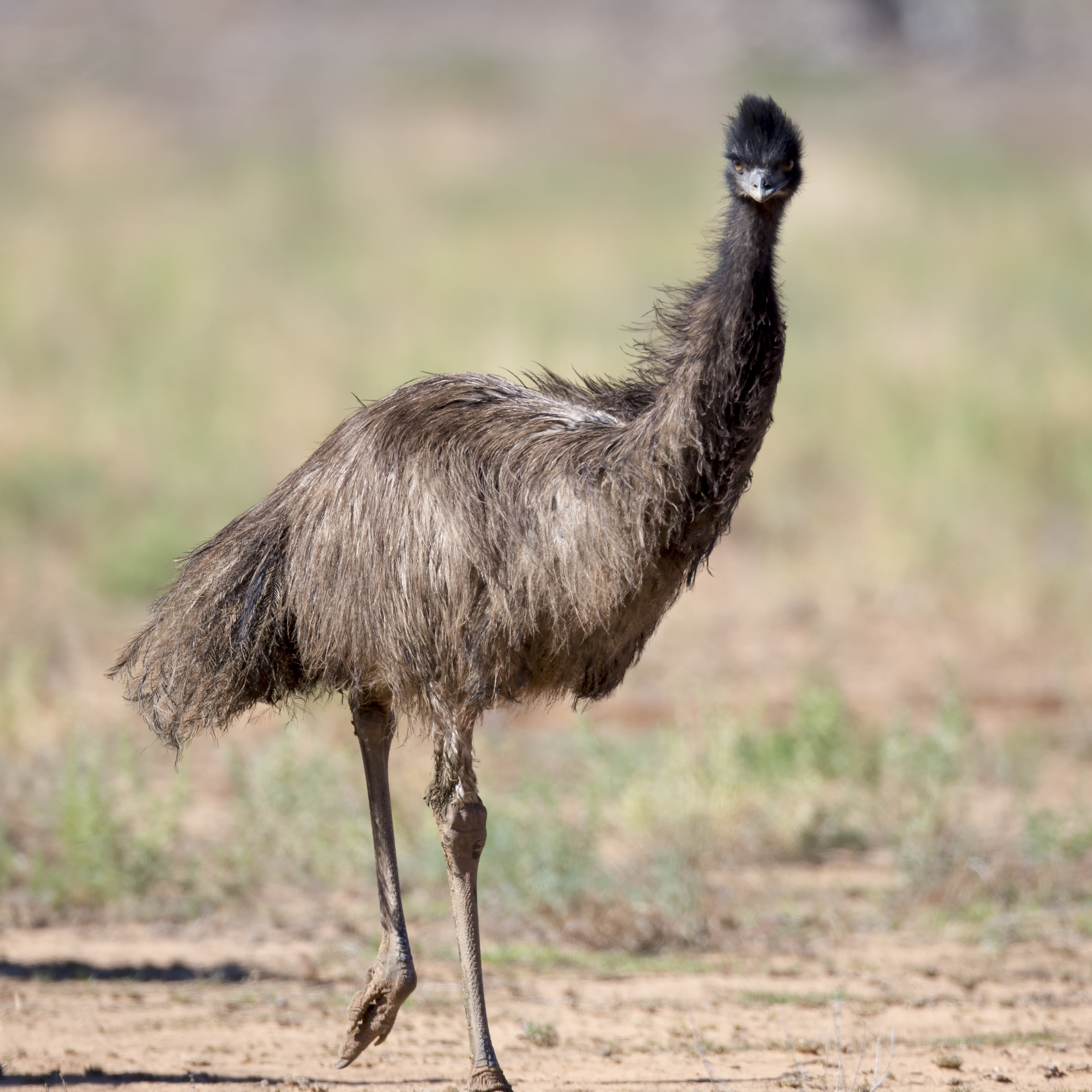 A young emu gets up close and personal